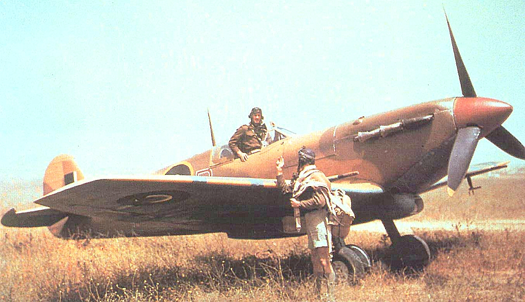 A Supermarine Spitfire Mk VB (s/n ER622) and pilots of No. 40 Squadron, South African Air Force, at Gabes in Tunisia, April 1943.